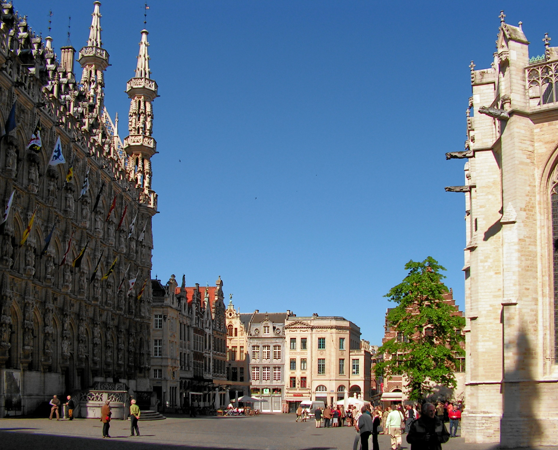 Leuven's Grote Markt with the Stadhuis on the left.